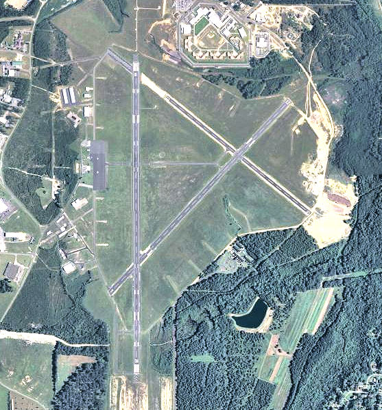 USGS digital orthophoto of Waycross-Ware County Airport in the U.S. state of Georgia